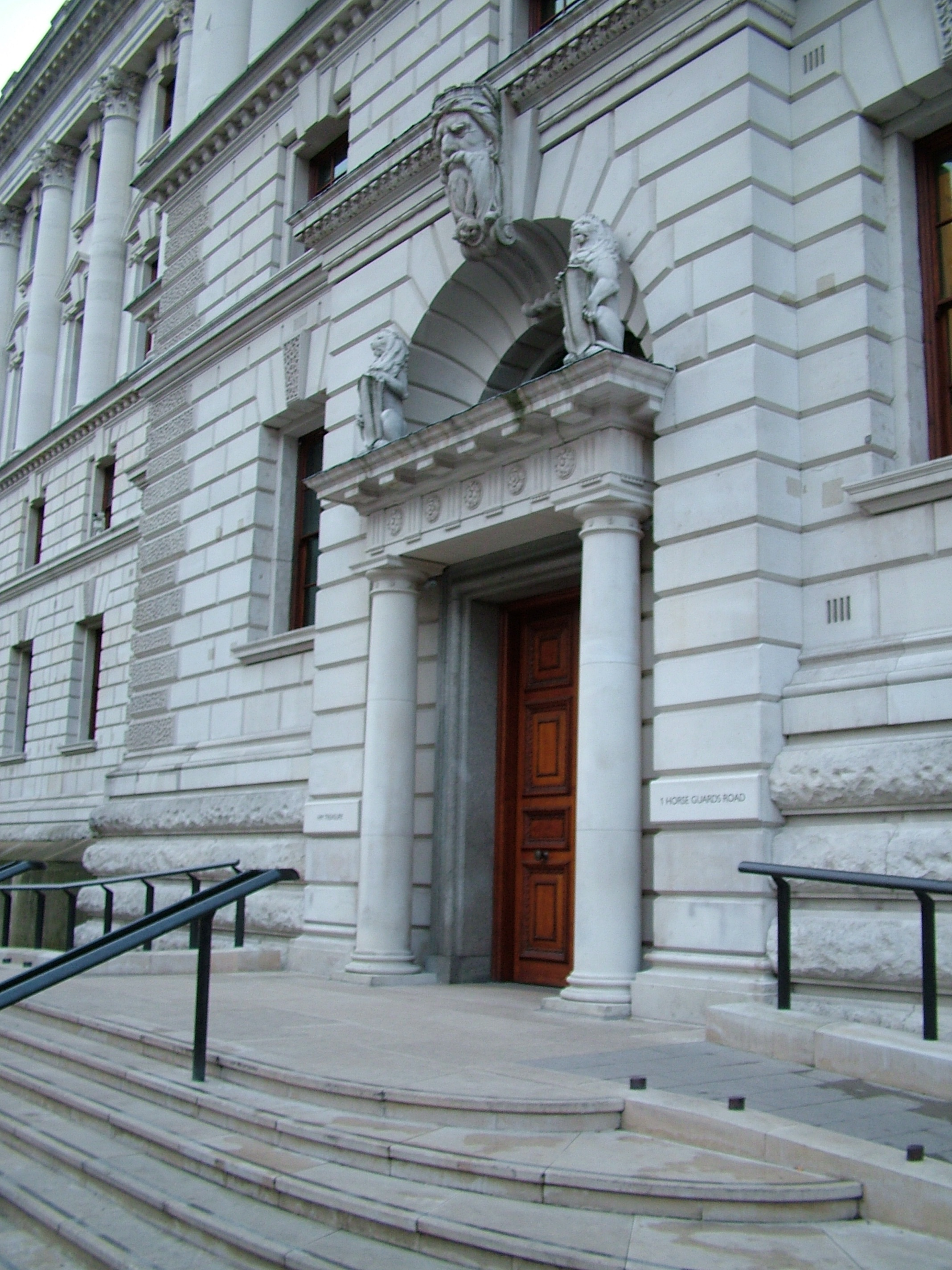 East entrance of HM Treasury